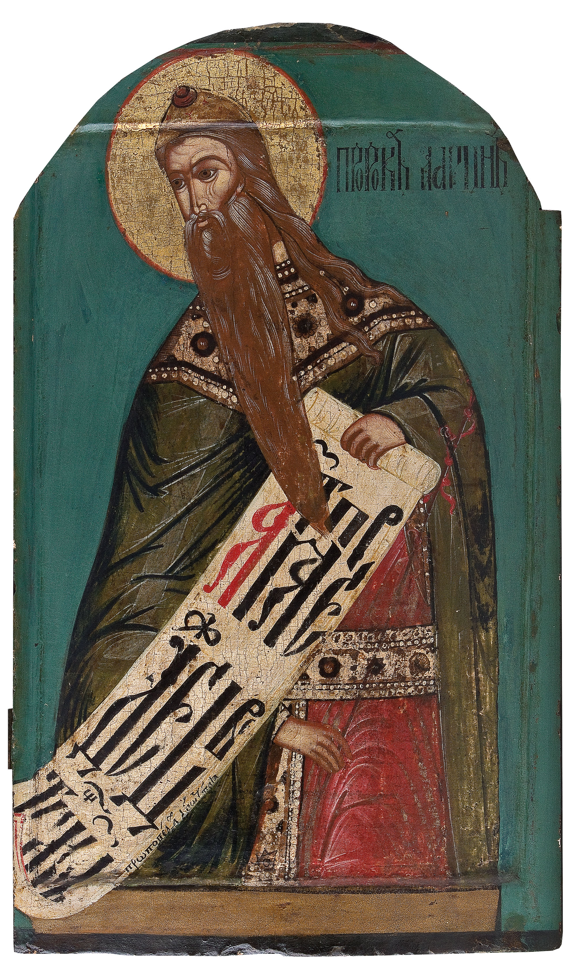 Six panels from a large iconostasis register. Tempera on wood panel with kovcheg. The Old Testament figures represented half length, turning towards the center where an image of the Mother of God would have been displayed. They are holding an unrolled scroll inscribed with the prophetic words. Teir faces and long beards rendered delicately. The faces executed in cool colours. The garments decorated with bejewelled hems. With a gold halo defined a red rim. The background dominated by tones of green, later. Norther Russian, 17th century. 62 x 39 cm. Nordrussland, 17. Jh.